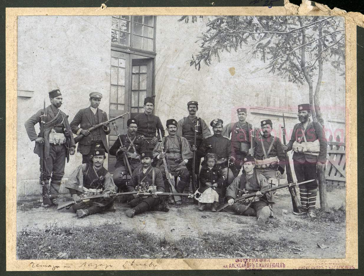 Lazar Delev cheta 1912